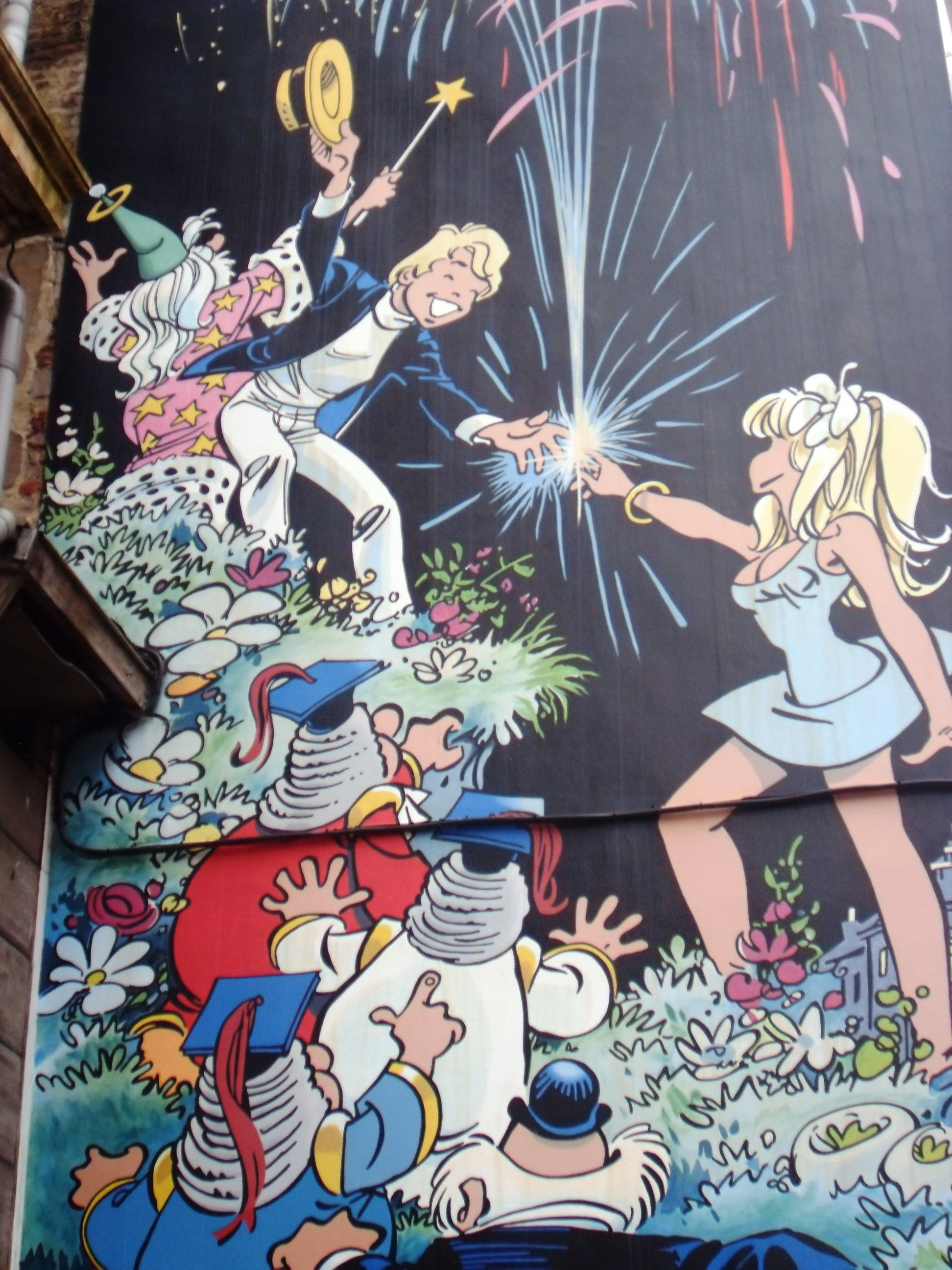 Olivier Rameau and the people of Dreamland mural painting. Location: Rue du chêne 9, Brussels. Surface: ±60 m². Realisation: Oreopoulos G. and Vandegeerde D. Year: Juni 1997. Comment: Olivier Rameau and the people of Dreamland, marked the debut of Dany's first successful and longest running series. Dreamland is very similar to the worlds of L. Frank Baum's Oz and Lewis Carroll's Alice.